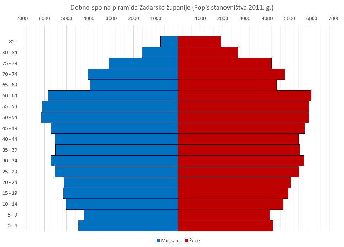 Population pyramid of Zadar County. Version in Croatian. Data from 2011 Census; available at